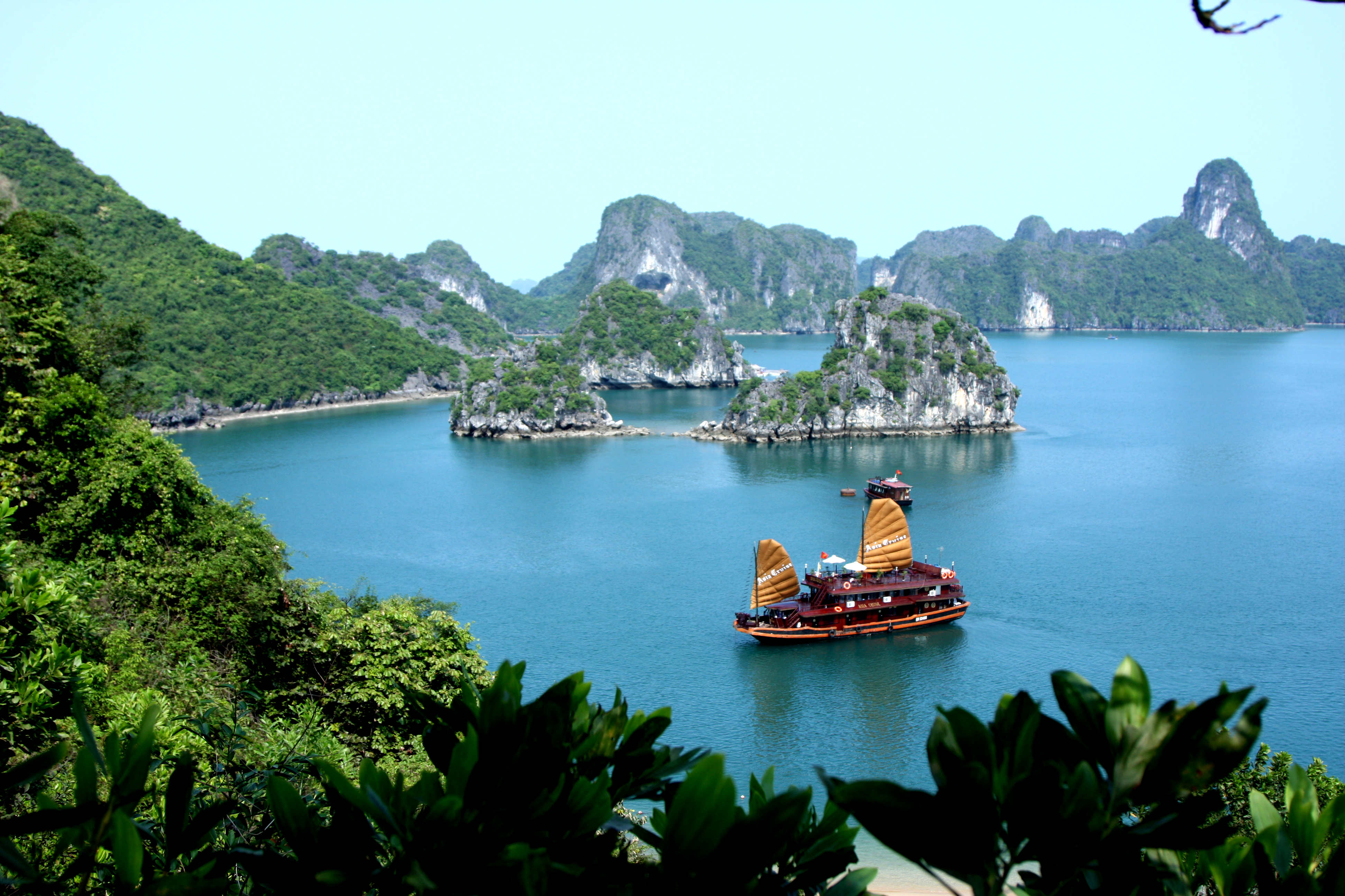 Trekking Travel's Asia Cruise in Halong bay.